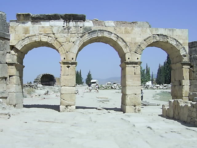 The ancient gate in Hierapolis, Turkey, 20 kms from Denizli. Taken by myself, 2005.